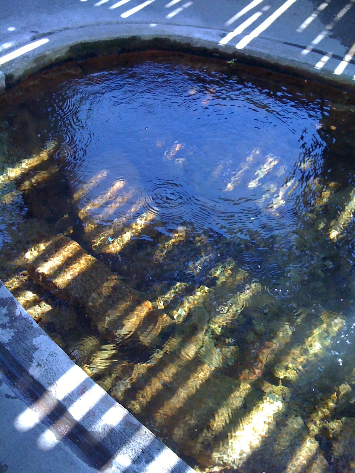 A photo of the spring located at Hooper Springs Park in Soda Springs, Idaho.